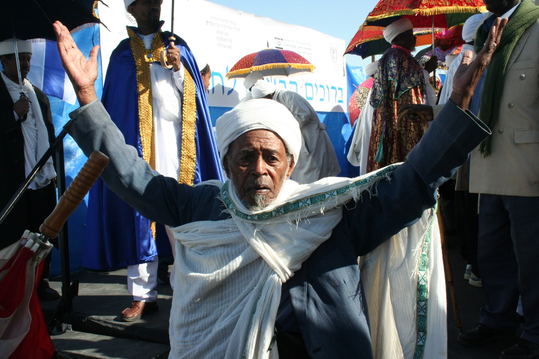 the Ethiopian Jewish holiday of sigd, reminiscent of Shavuot